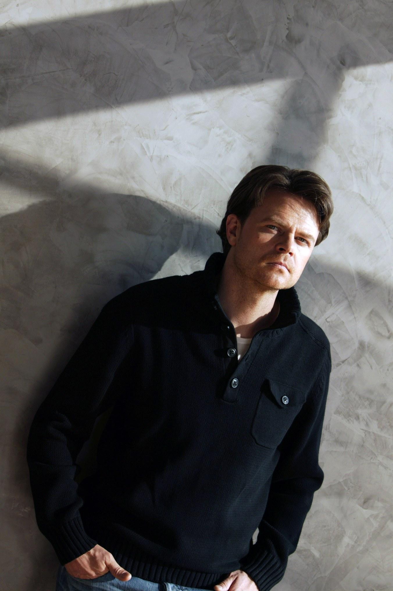 Singer-Songwriter Klaus-André Eickhoff